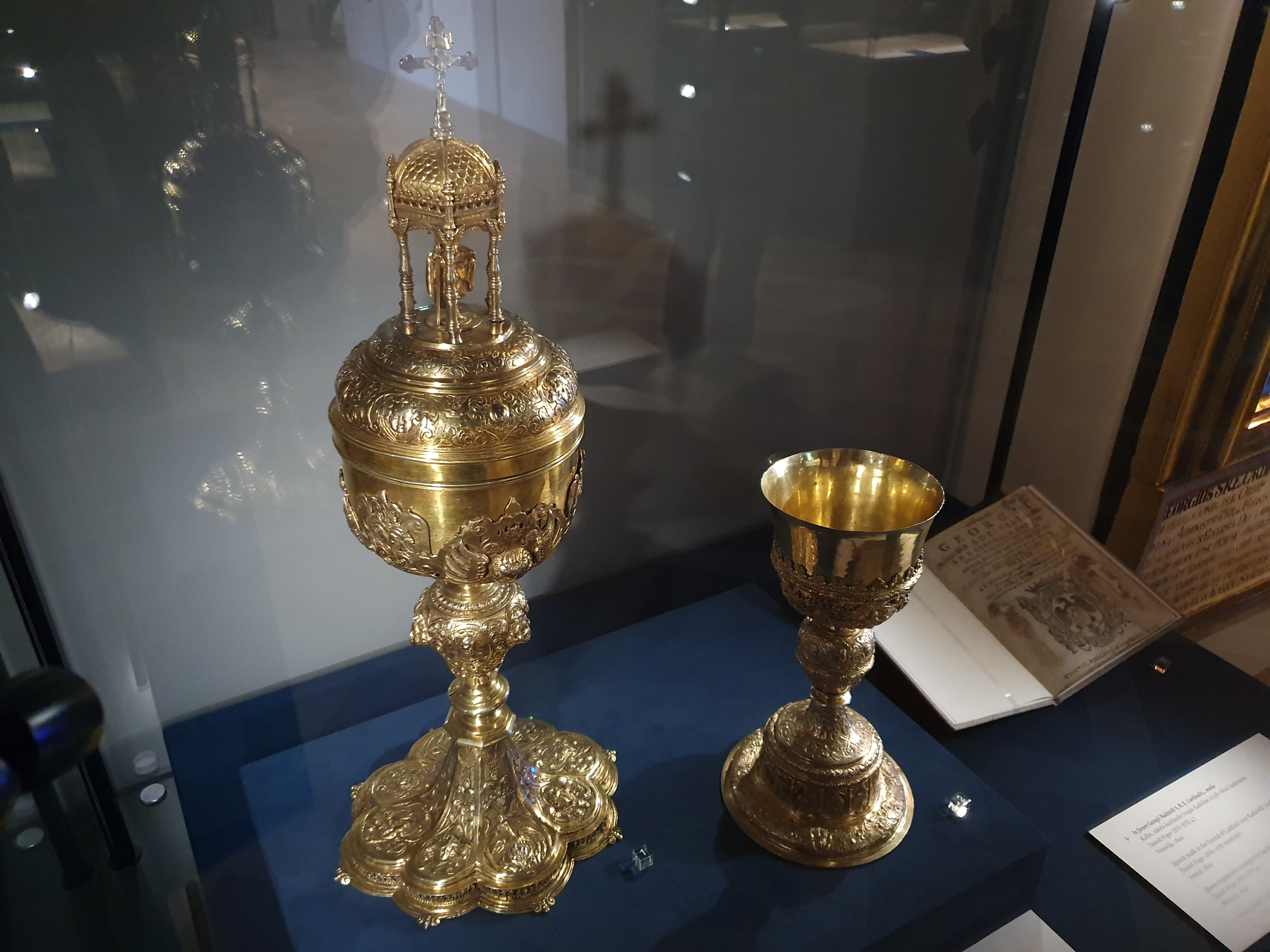 Numbered as 1. Ciborium made by order of Vilnius bishop Jerzy Radziwiłł (1556-1600). It was made in Vilnius (?) at the end of the 16th century. Numbered as 2. Chalice, gift of the Vilnius Bishop Jerzy Radziwiłł. Vilnius, 1579-1591. The items were photographed during an exhibition at the Palace of the Grand Dukes of Lithuania.